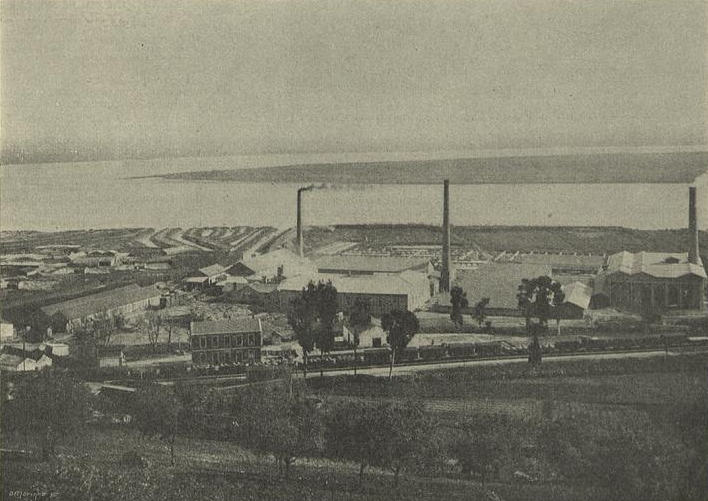 General view of a cement plant in Alhandra, Portugal, with the railway station in the foreground. The plant opened in 1894. This image was published on the Occidente magazine No. 1008, of the 30 de Dezembro de 1906, and scanned by the Hemeroteca Municipal de Lisboa.